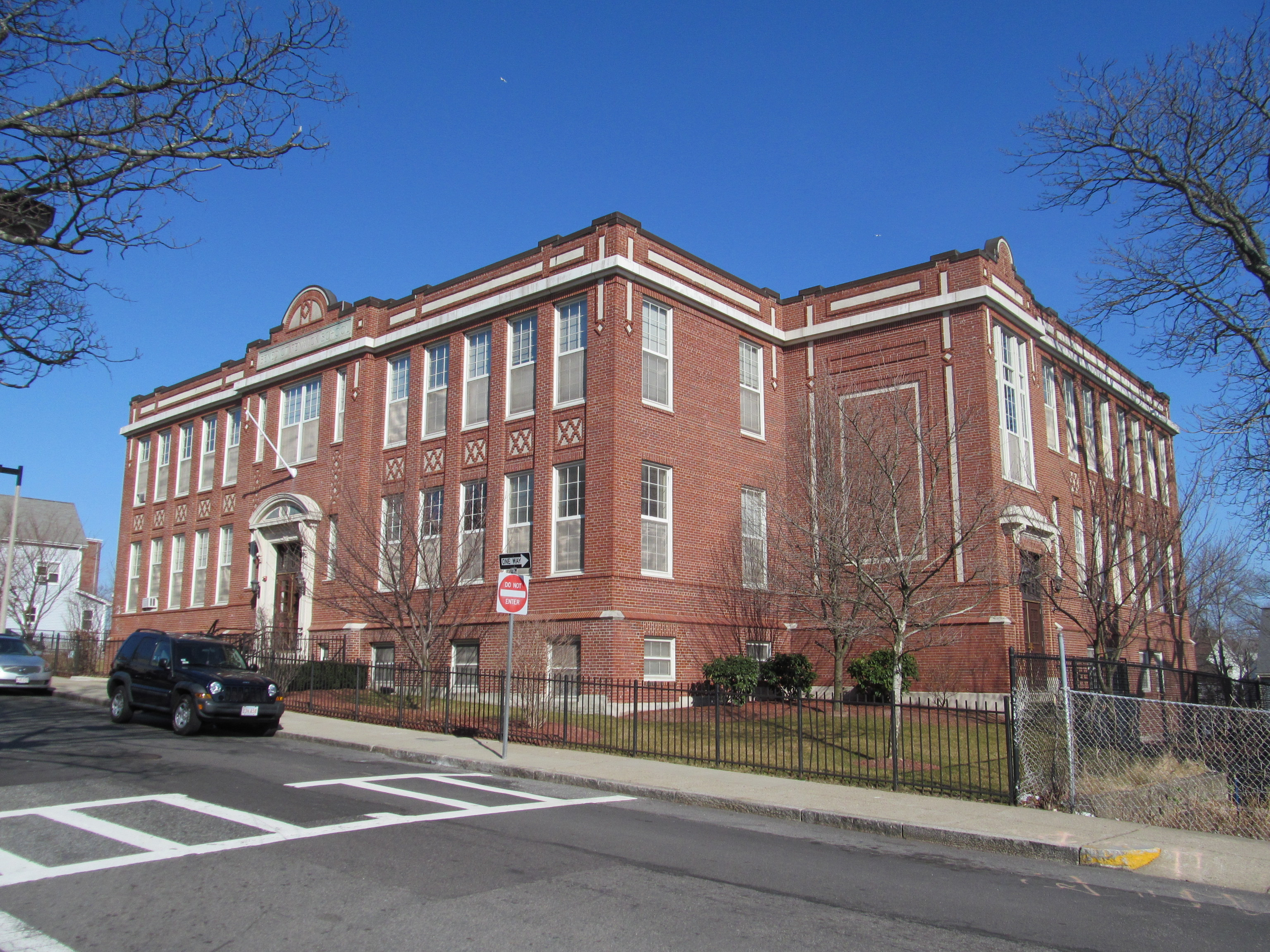 Benedict Fenwick School, Dorchester Massachusetts